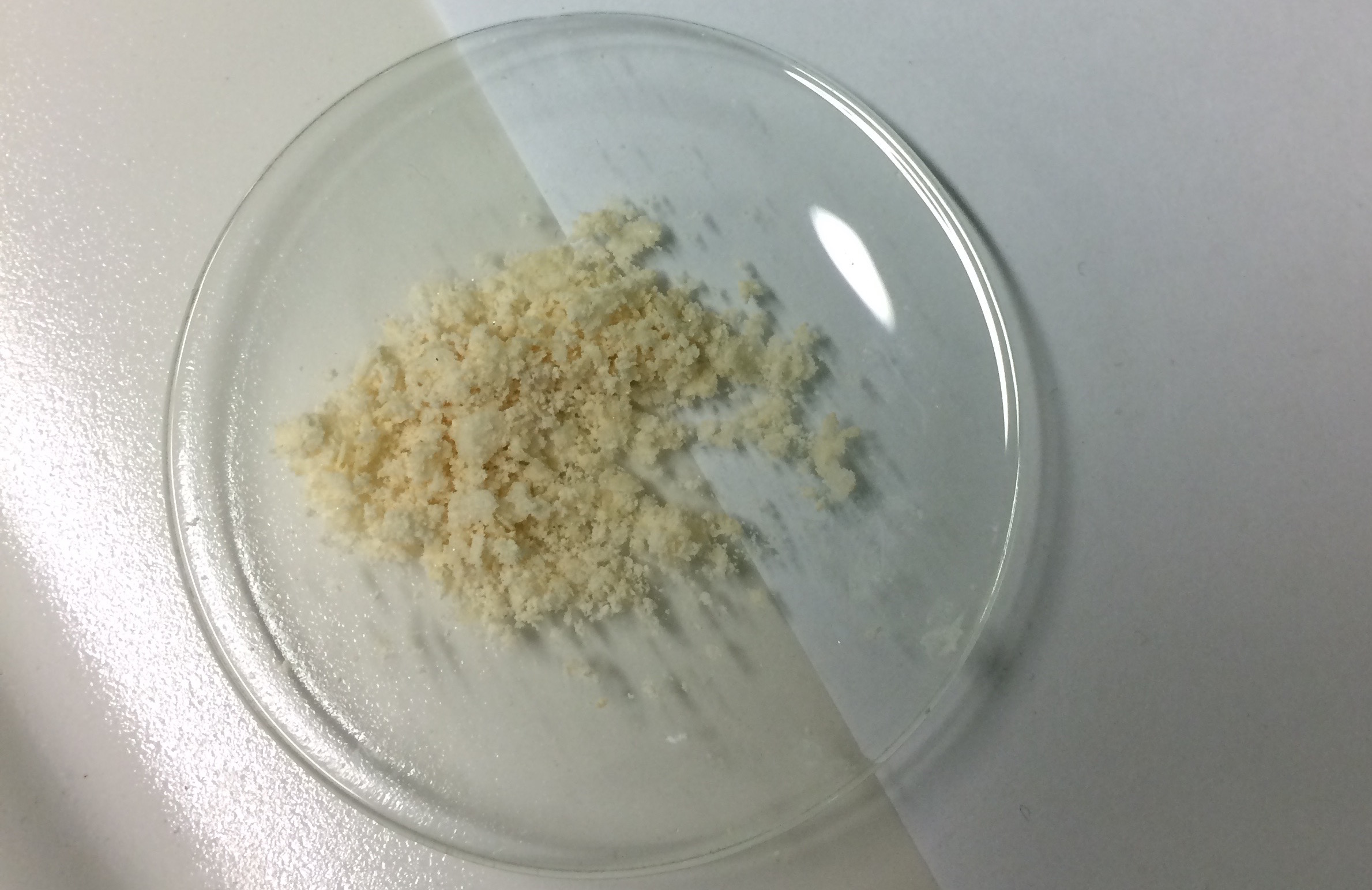 Purified by separation and filtration